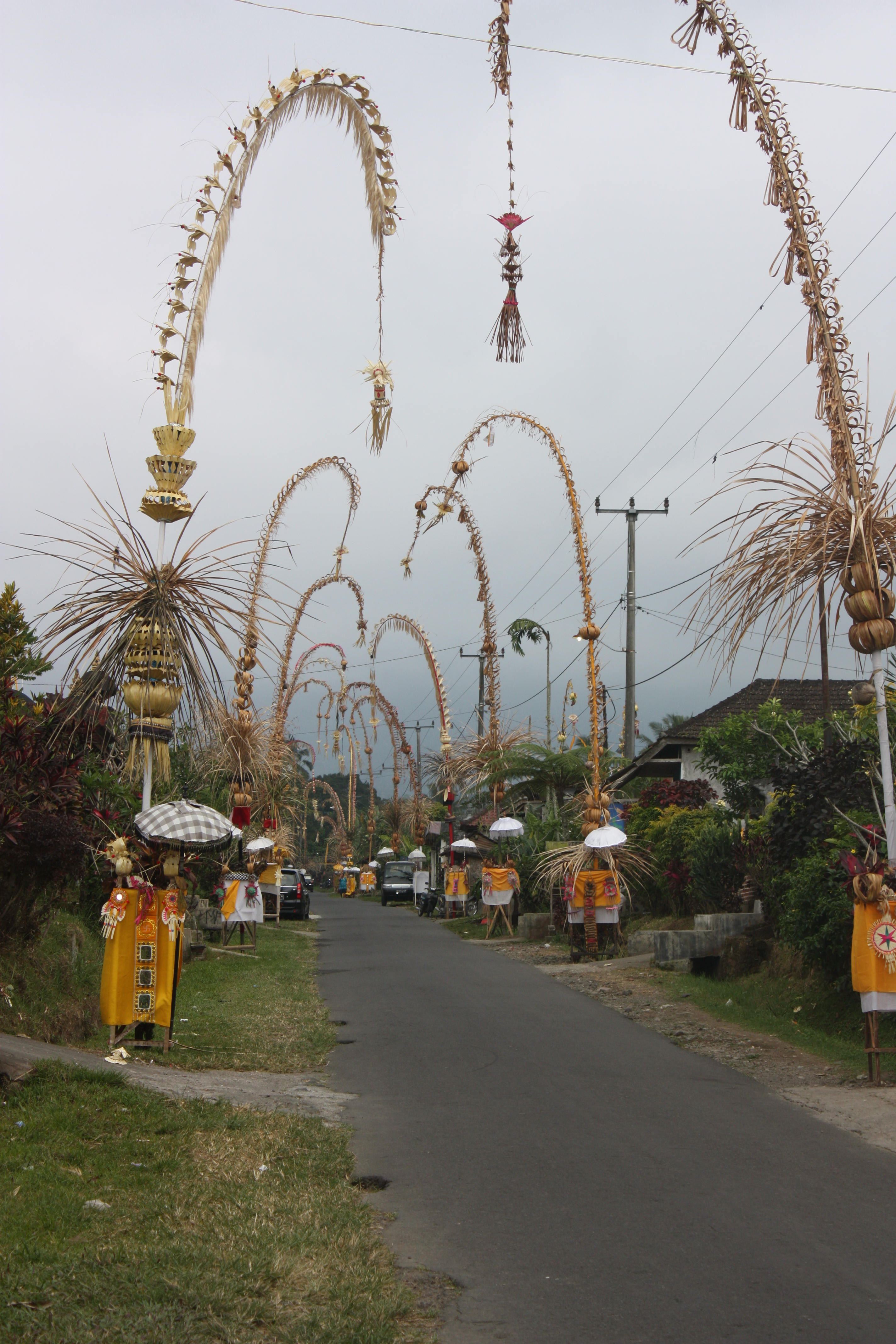 Around Lovina, penjors